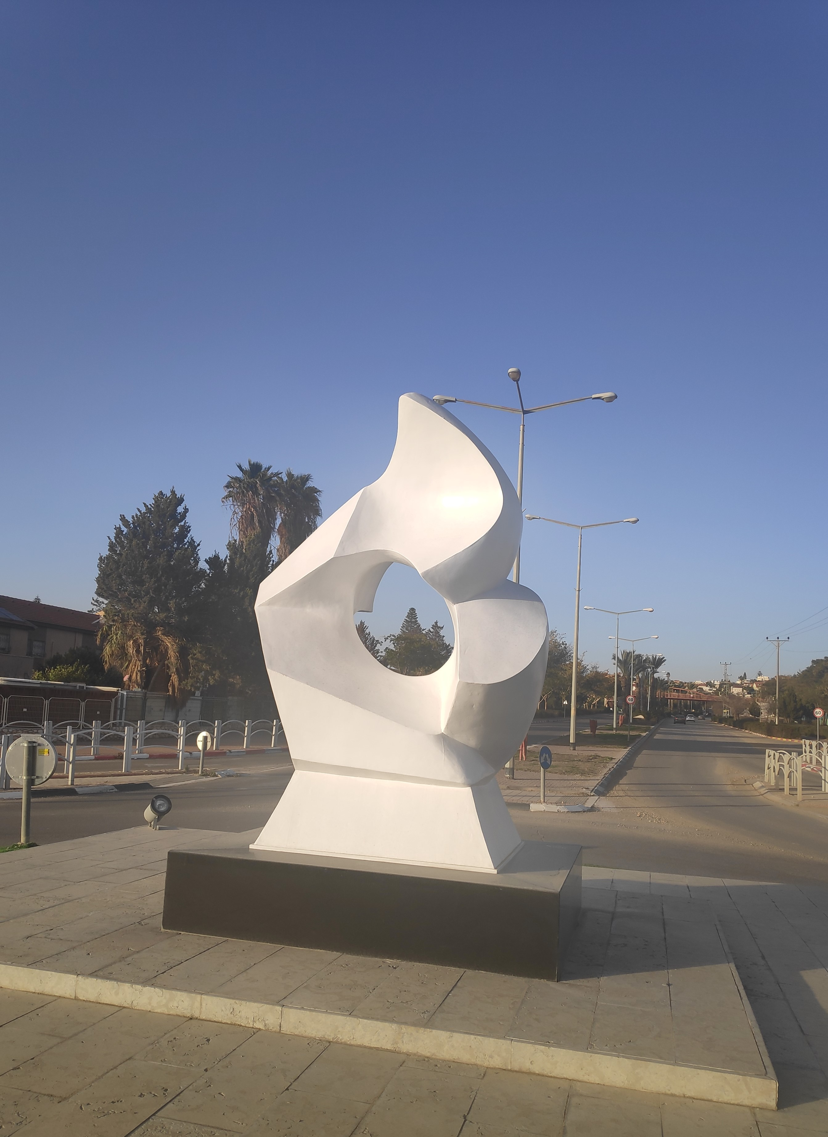 The Square of Light, by Prof. Shraga Segal, Paula Ovadia Sculpture, 2020